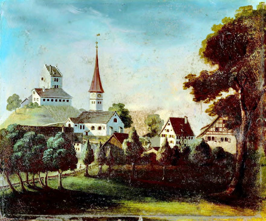 Reformierte Kirche & Schloss in Uster